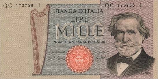 Front of Italian ₤ 1000 banknote (1969–1981) representing Giuseppe Verdi